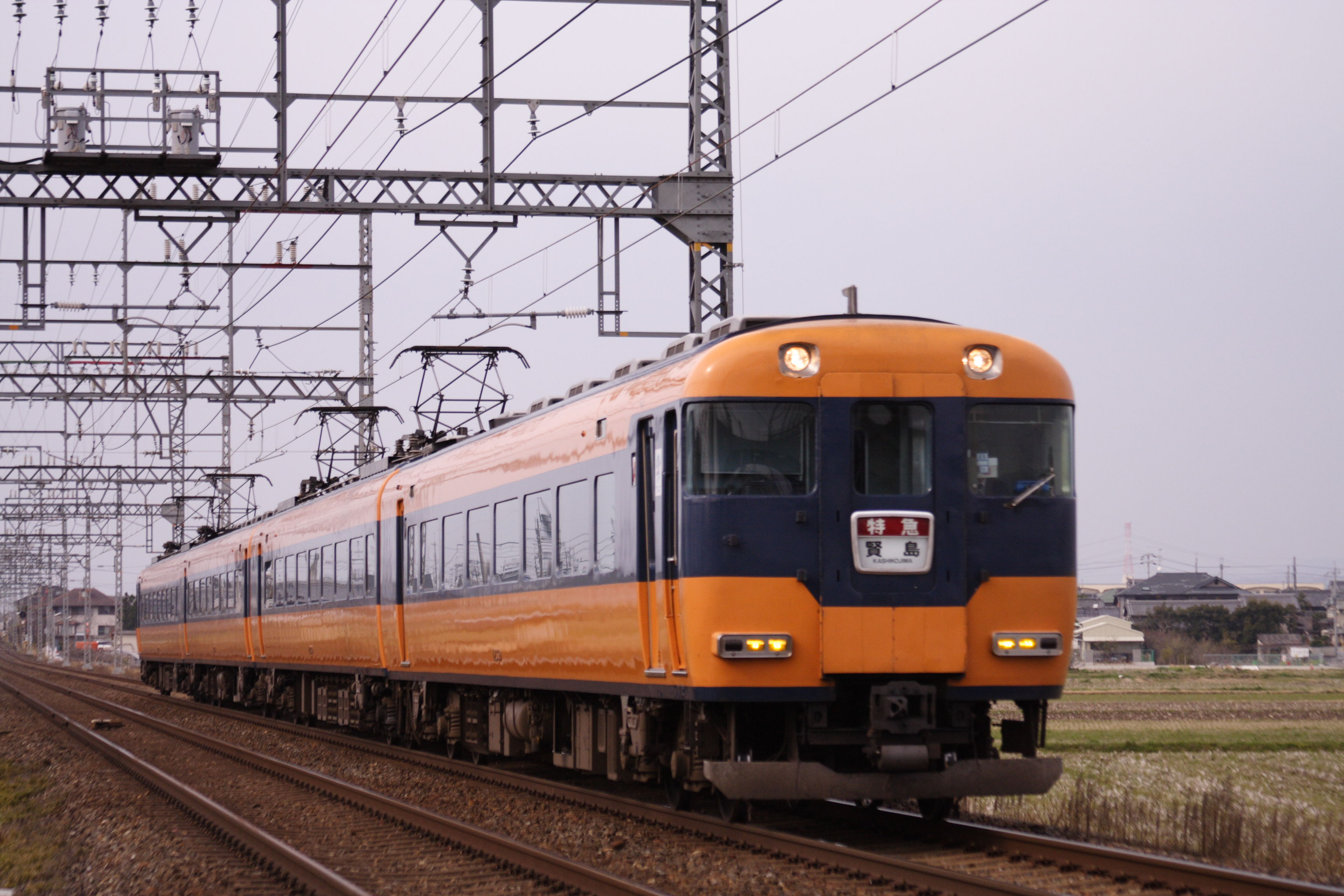 近畿日本鉄道・12200系電車/series 12200 electric car of Kintetsu Corporation